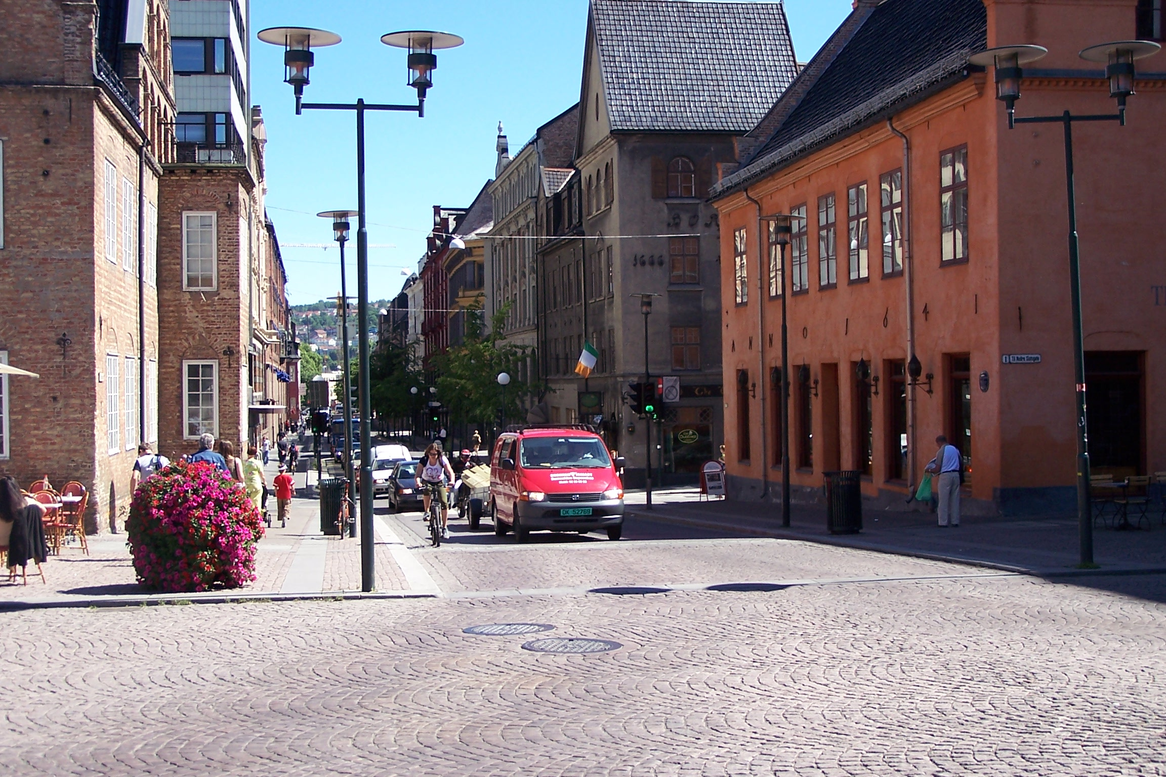 Rådhusgata in Oslo seen from Christiania Torv. To the left Rådmannsgården, to the right Gamle rådhus.